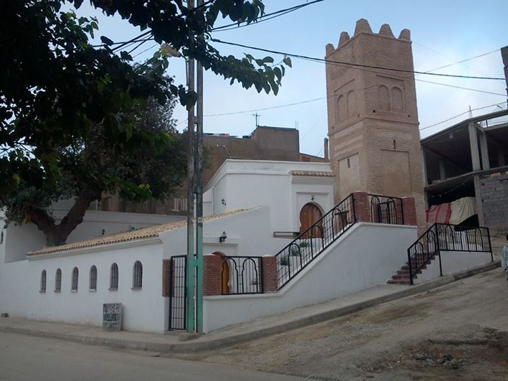 Mosque of ‘Ayn al-Ḥūt